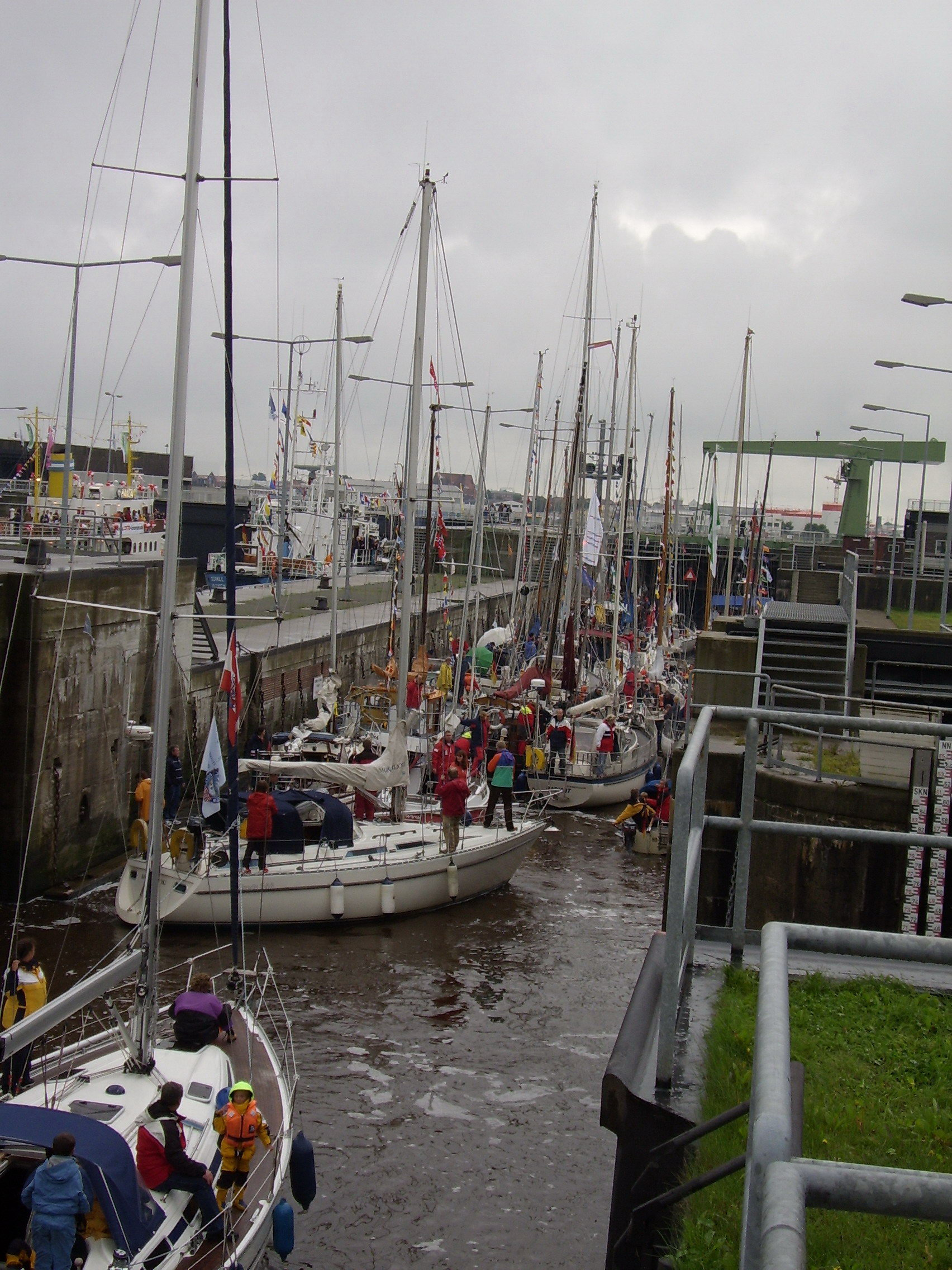 Lock, crowded with yachts during the Sail 2005 in Bremerhaven, Germany